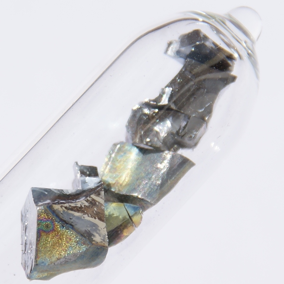 Pieces of pure vanadium with oxide layer.